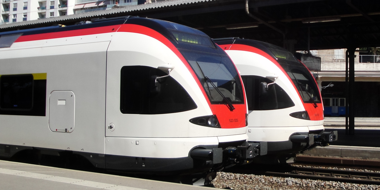 Two "FLIRT" trains (Rabe 523) of RER Vaudois intersect at the station in Montreux, Switzerland. The train in the foreground will continue its way to Allaman on S3. The second train went to Villeneuve on the S1.